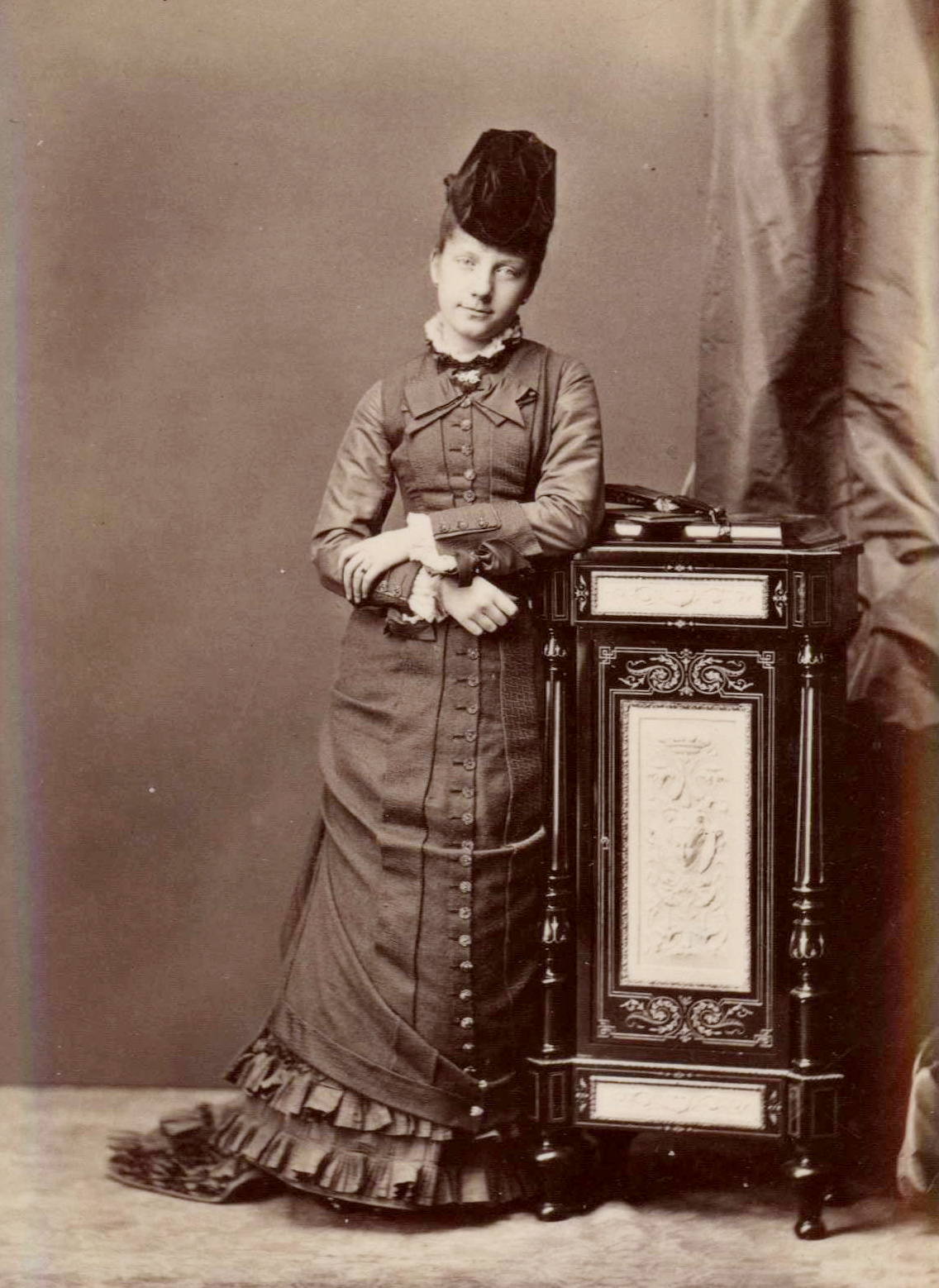 Infanta María de la Paz of Spain (later Princess of Bavaria)